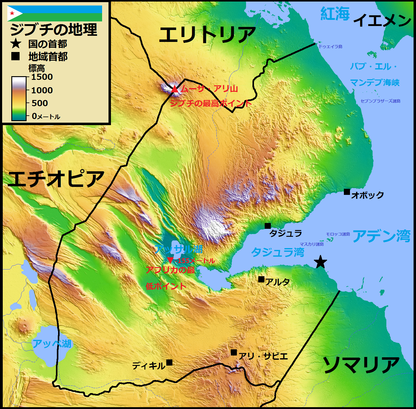 Map of Djibouti in Japanese